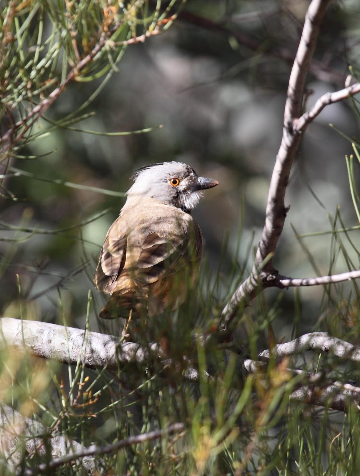 Crested Bellbird (Oreoica gutturalis), Northern Territory, Australia